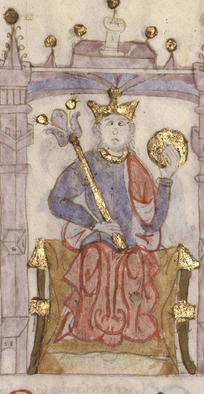 Henry I of Castile